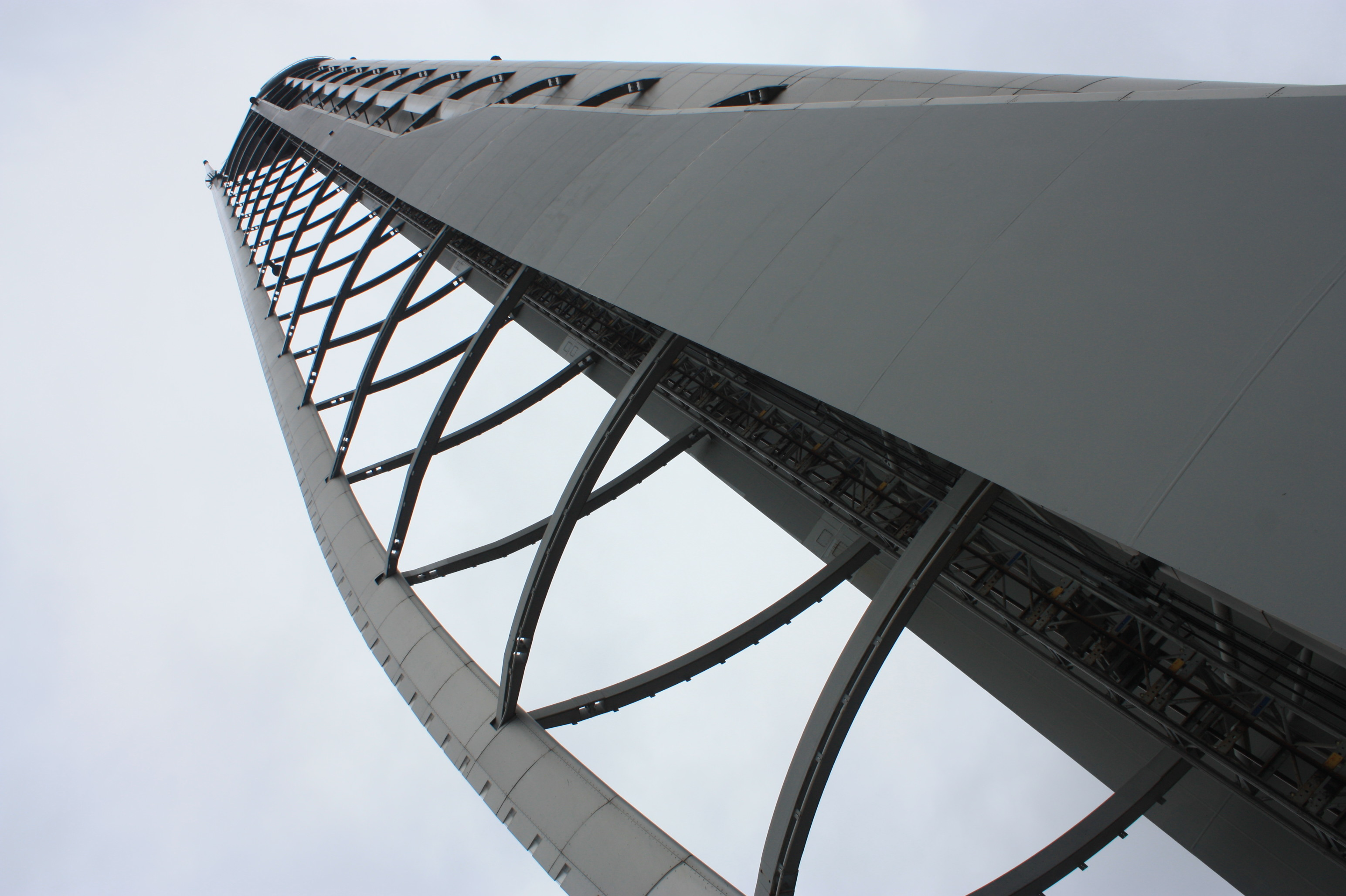 Glasgow Tower from its base